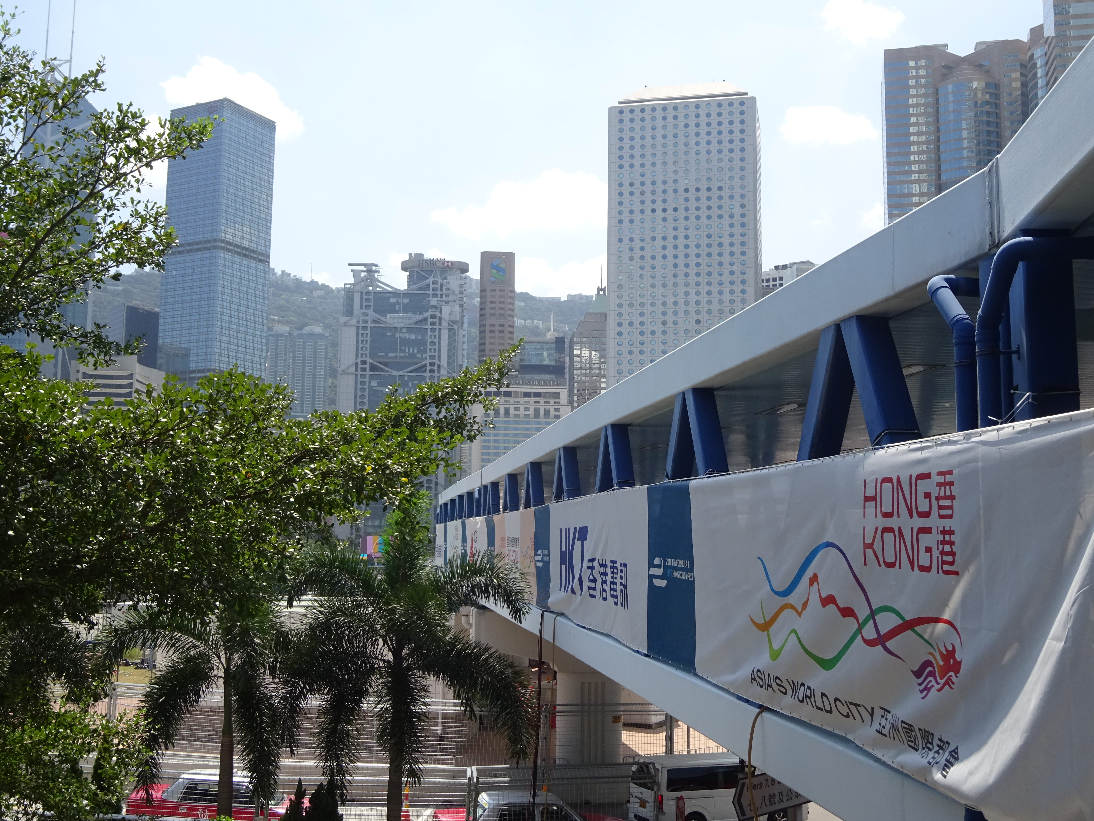 HK Central 民耀街 Man Yiu Street in October 2016